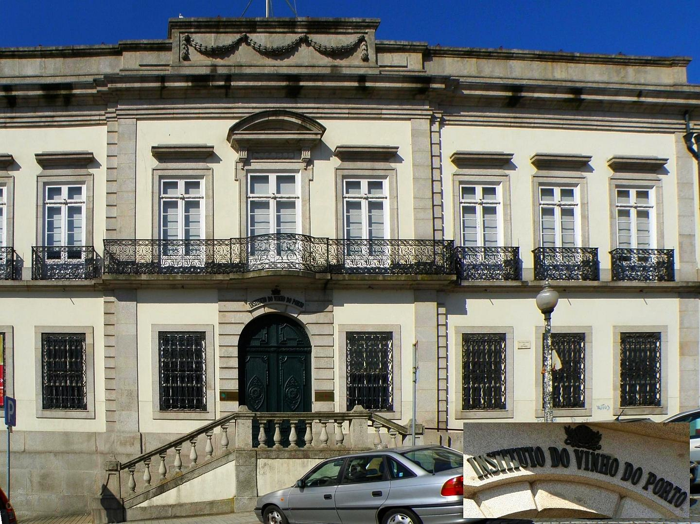 Instituto do Vinho do Porto / Antigo Banco Comercial do Porto in Porto, Portugal.